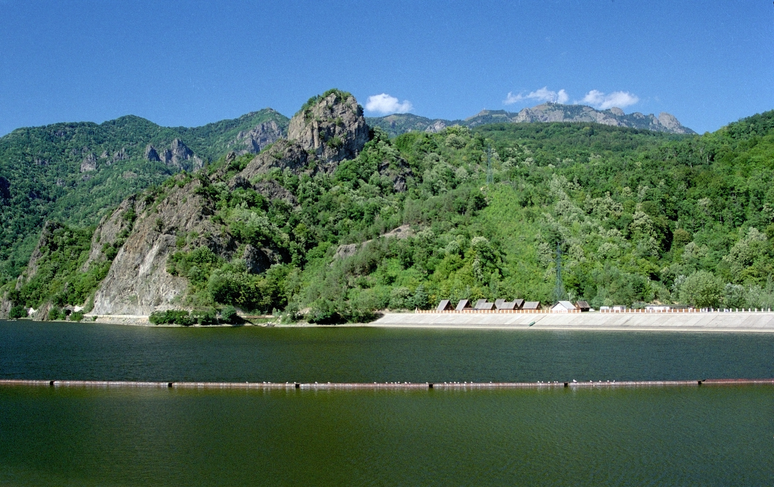 Cozia mountains and national park (view from Olt river), Romania